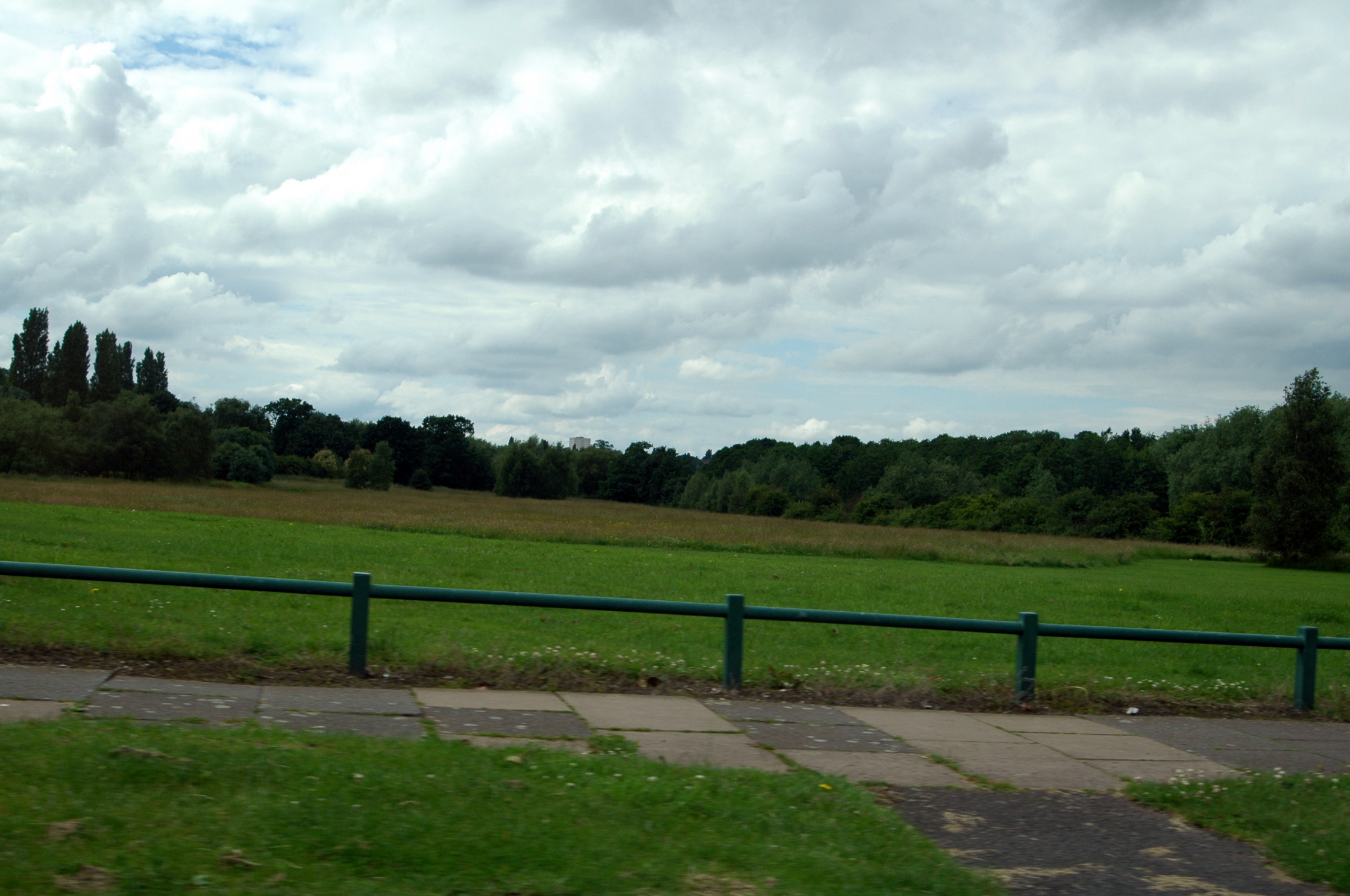 This is Pype Hayes Park in Pype Hayes, north Erdington. It is located alongside Plants Brook, on the border with Walmley, Sutton Coldfield. Image taken by Erebus555, from Eachelhurst Road.